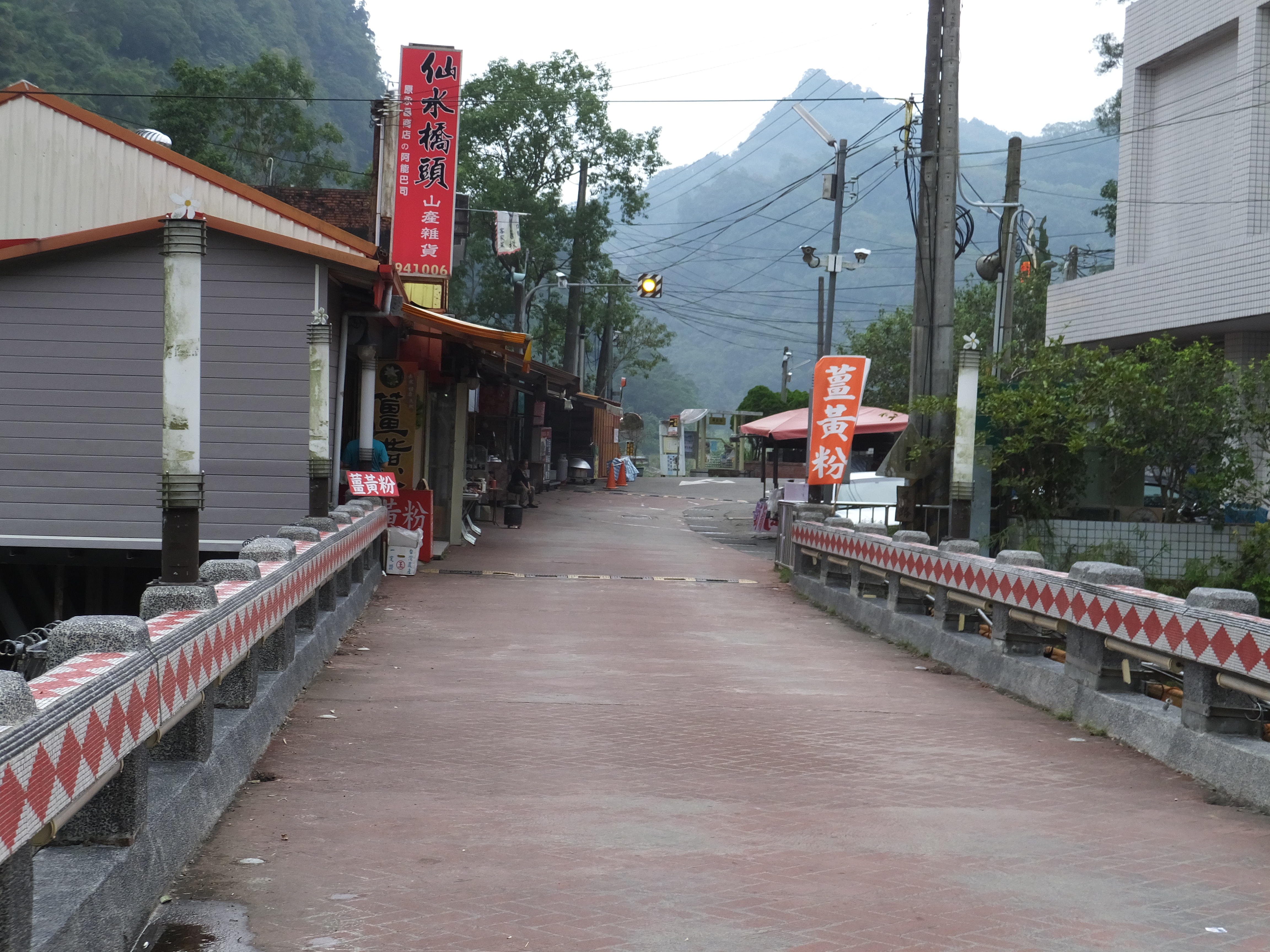 Qingan Dofu Street 清安豆腐街